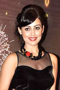 Esha Kansara graces ITA Awards 2013